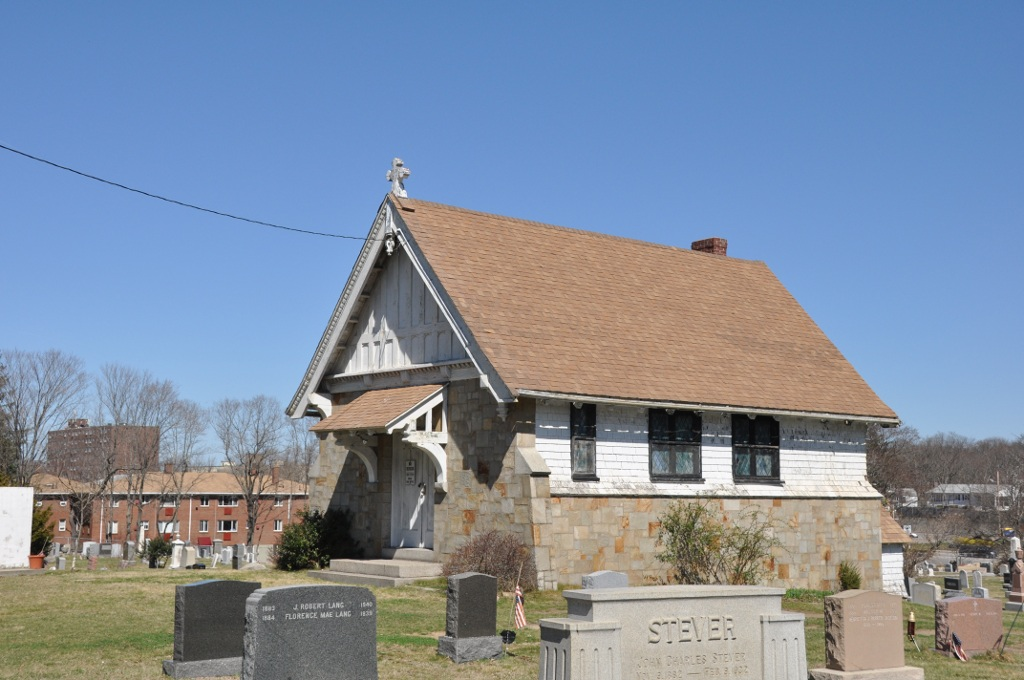 The chapel in the Weymouth Village Cemetery, a contributing property to the Front Street Historic District of Weymouth, Massachusetts.